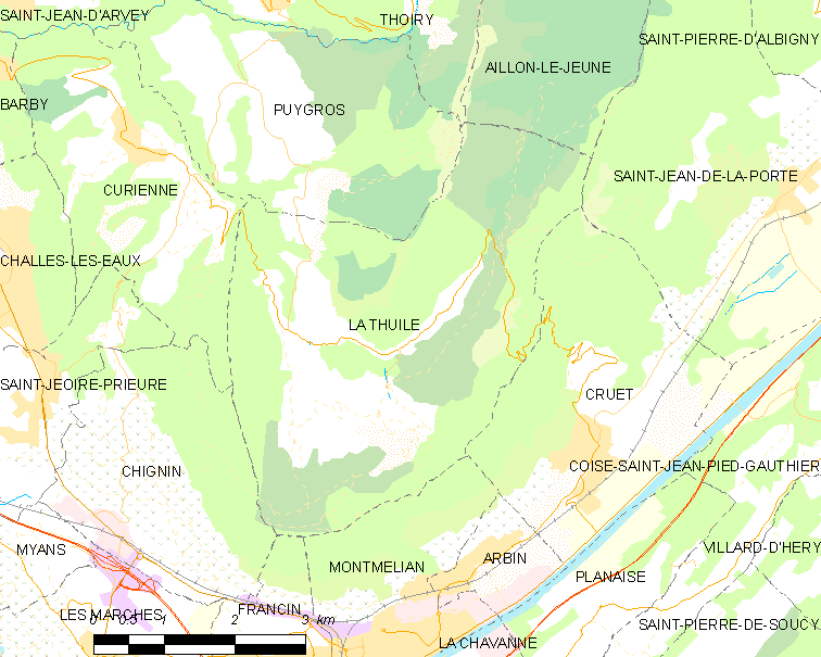 Map of French municipality La Thuile